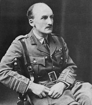 portray of J.F.C. Fuller